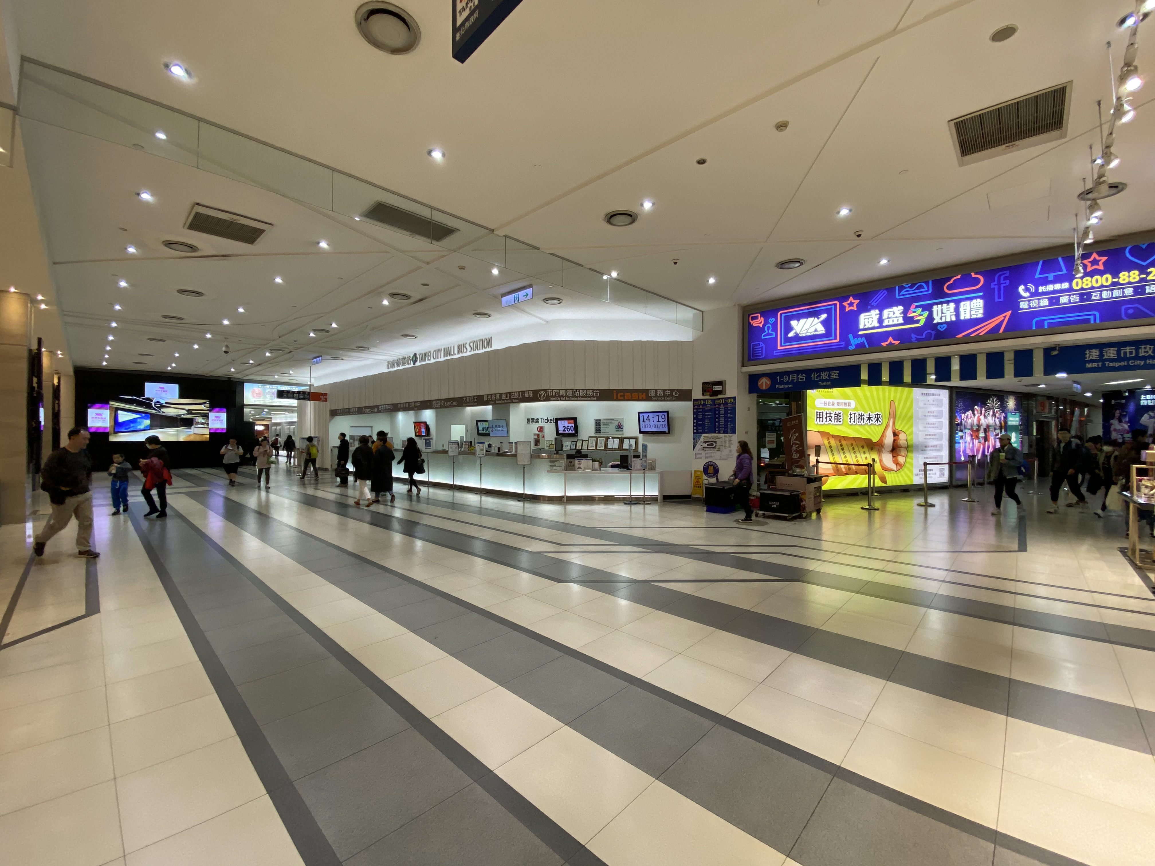 Taipei City Hall Bus Station Ticket office